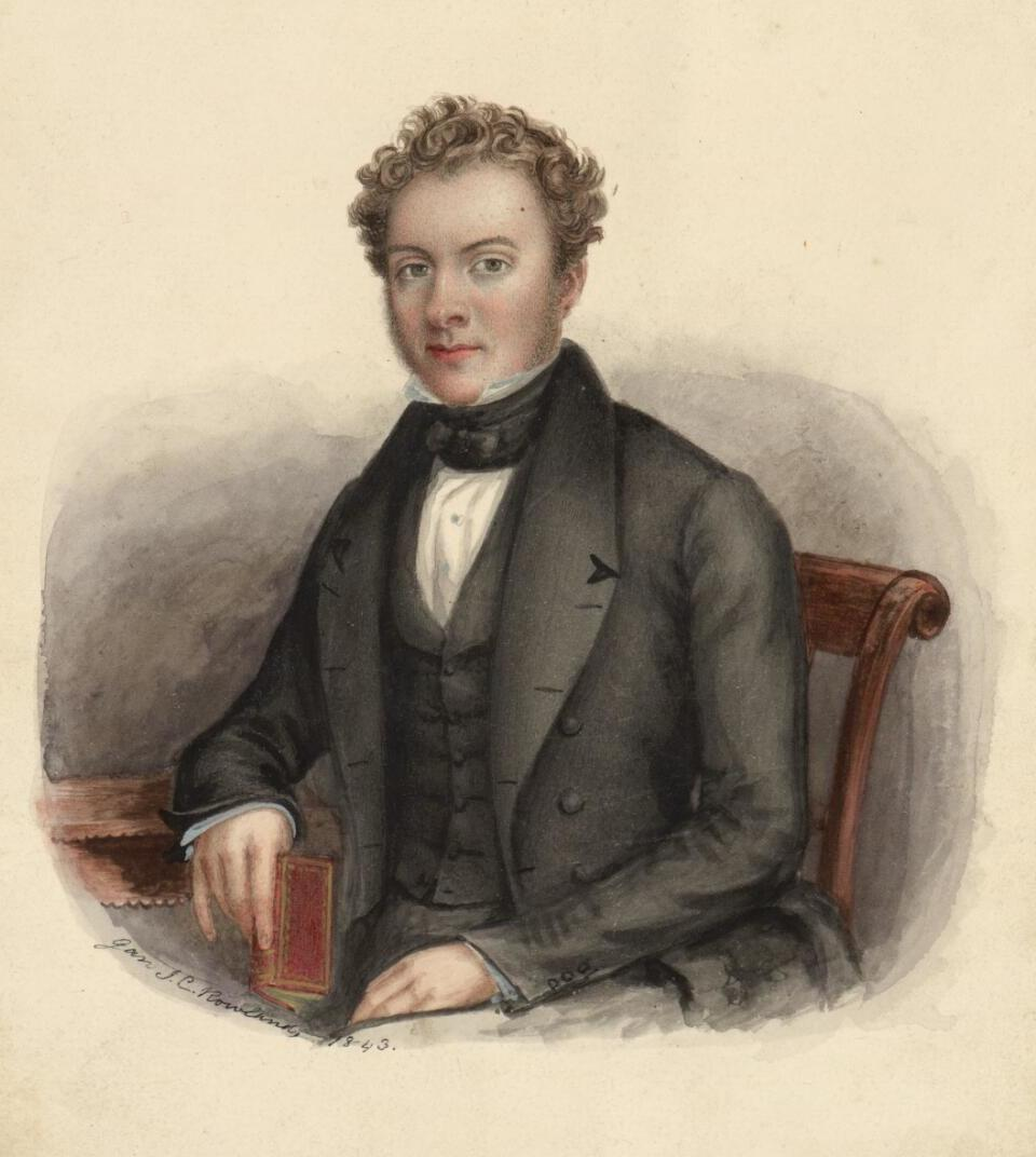 A portrait from the Welsh Portrait Collection at the National Library of Wales. Depicted person: Daniel Silvan Evans – Welsh scholar and lexicographer